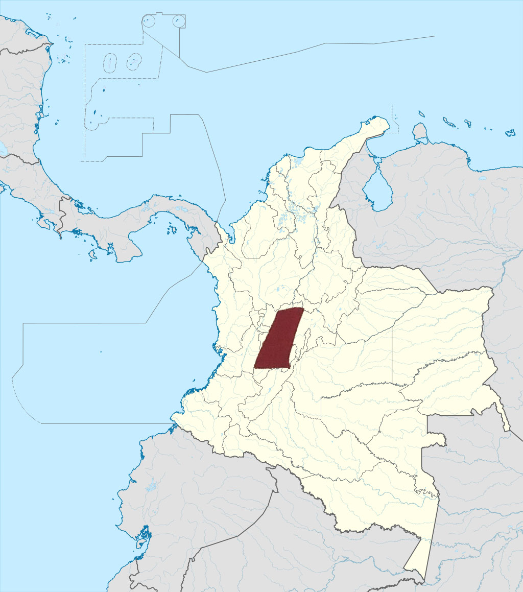 Historical territory of Tolima culture